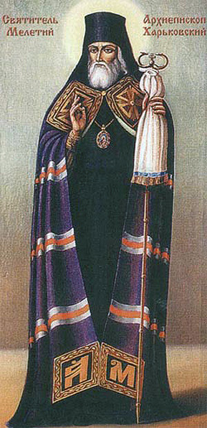 Icon of Hierarch Melity, archbishop of Kharkov